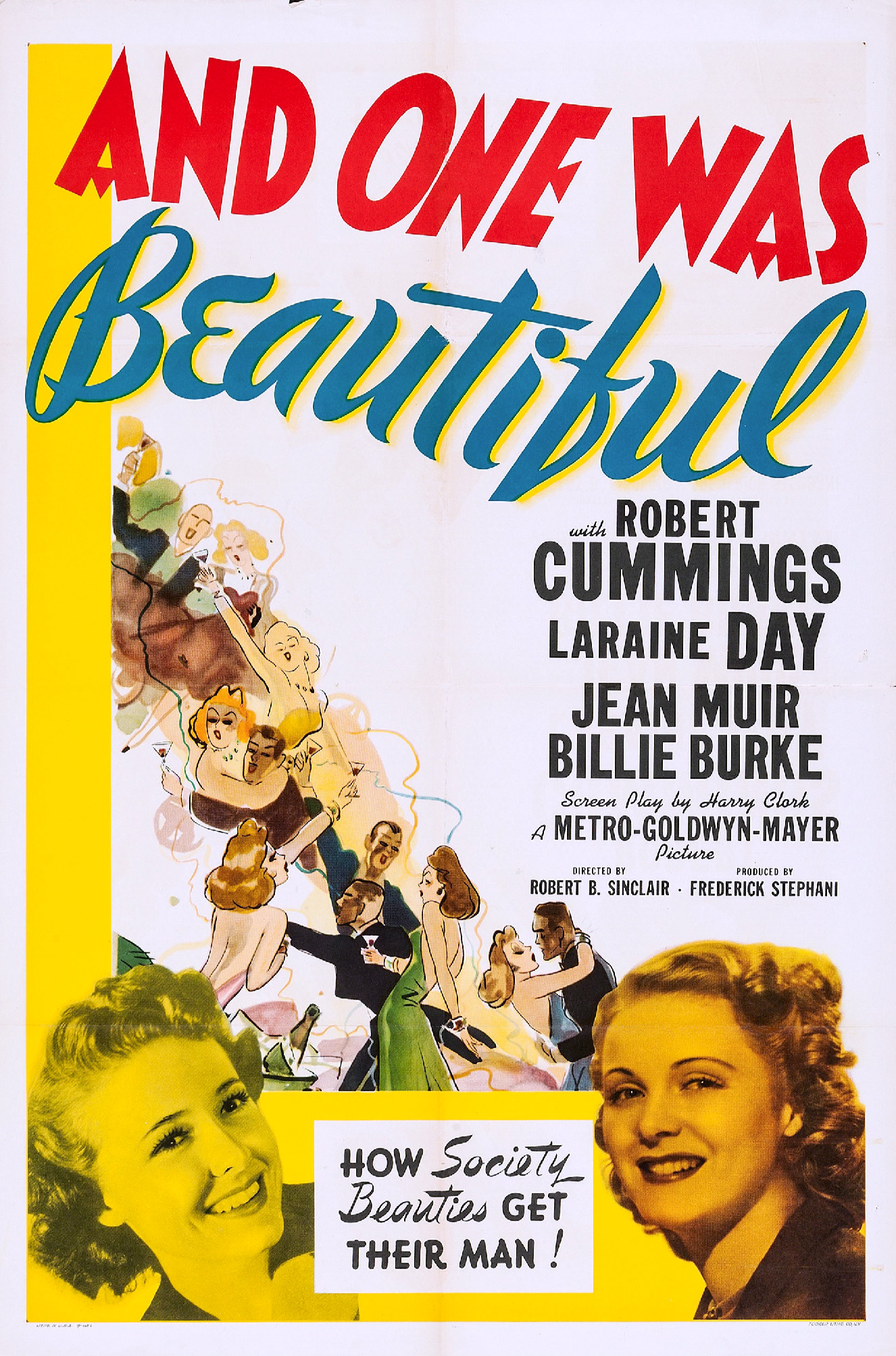 Poster for the 1940 film And One Was Beautiful.. The item has no copyright markings on it as can be seen in the links above. At bottom left is Litho in USA and #4656. At bottom right is Tooker Litho Co. NY-they printed the poster.